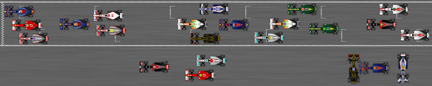 Race result of the 2011 Monaco Grand Prix in Monte-Carlo